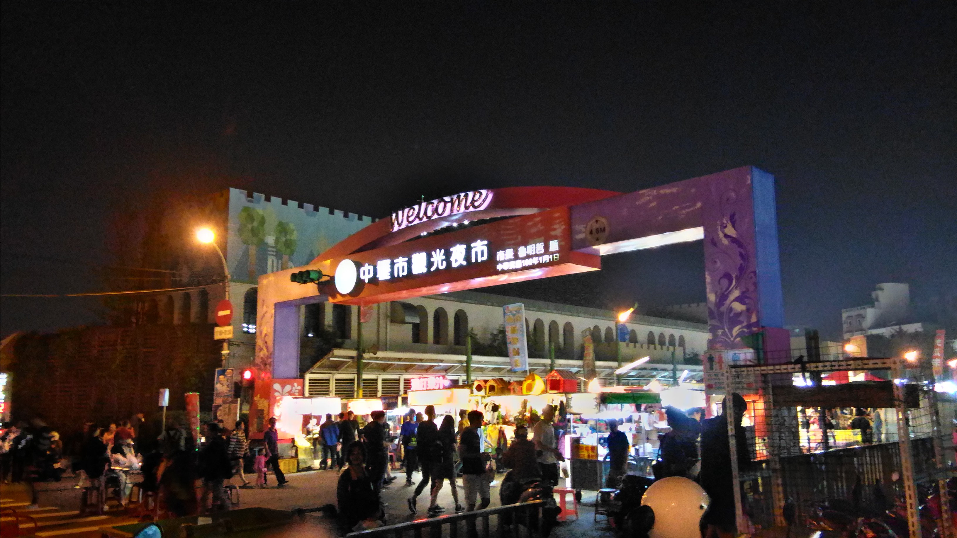 One of the entrance of Zhongli Night Market.